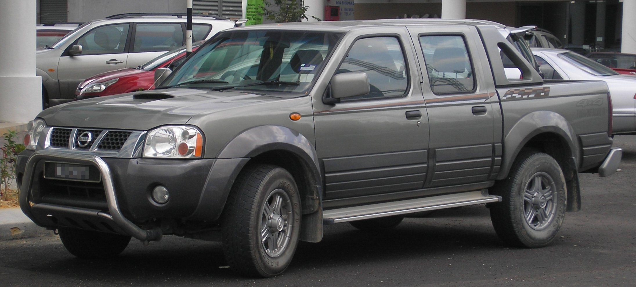 Front quarter view of a first generation, first facelift Nissan Frontier, in Serdang, Selangor, Malaysia.